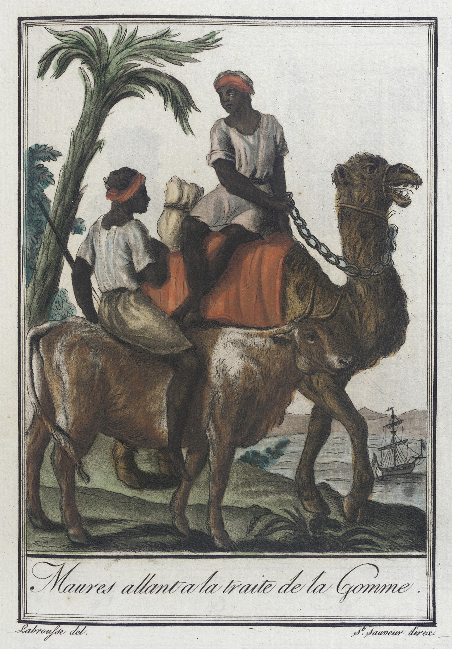 France, circa 1797 Prints; engravings Hand-tinted engraving on paper Sheet: 10 1/4 x 8 in. (26.04 x 20.32 cm); Composition: 7 1/2 x 5 3/8 in. (19.05 x 13.65 cm) Costume Council Fund (M.83.190.279) Costume and Textiles